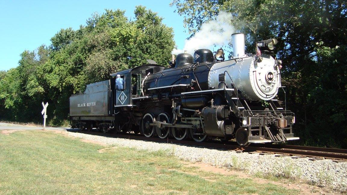 Black River 60 running light during the railroad's "Triple Header Day"